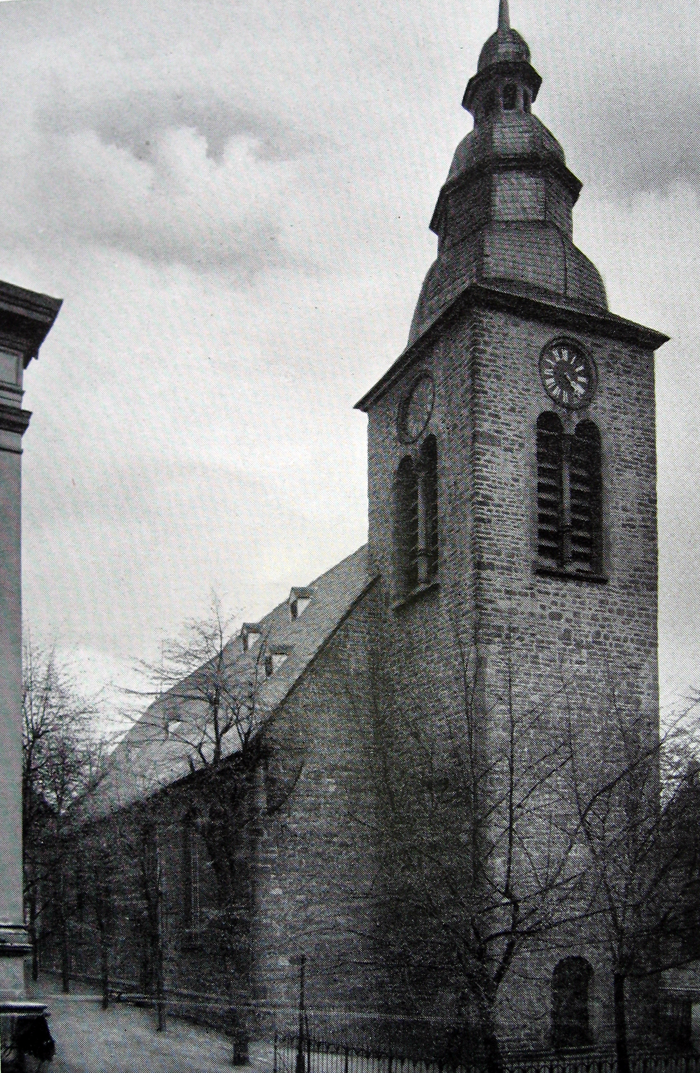 lutheran John's Church in Witten